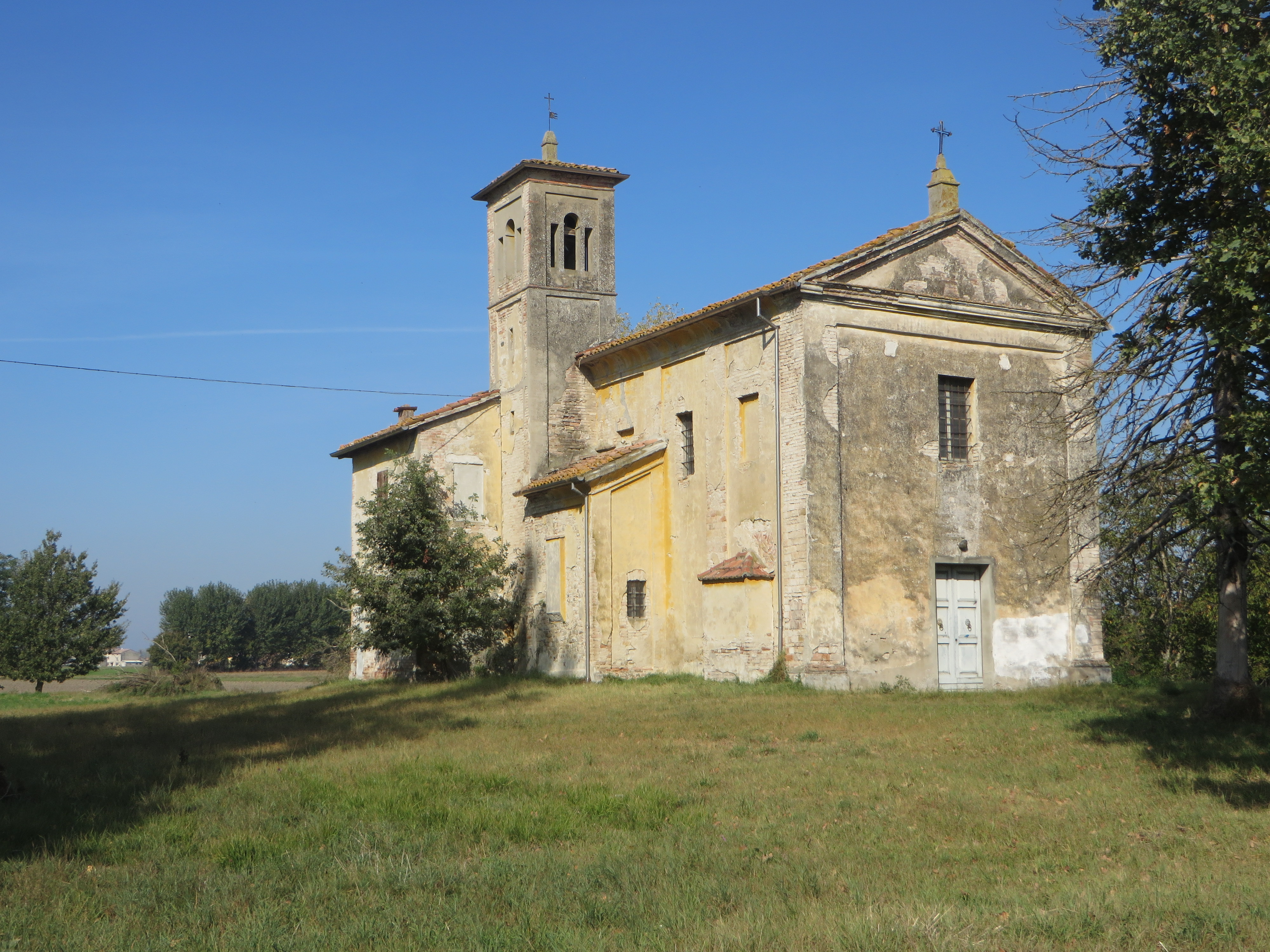 San Secondo Parmense Saint Andrew Church1